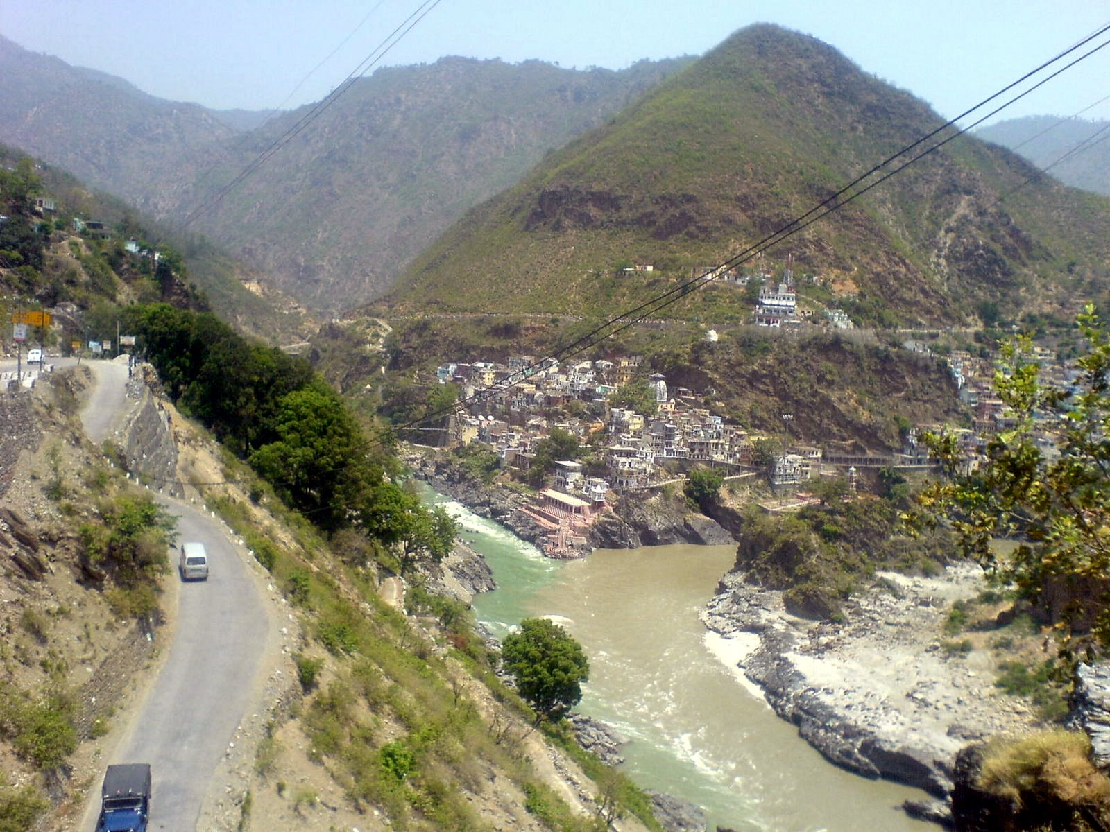 Author: Keerthi Kiran M Source: Created by me